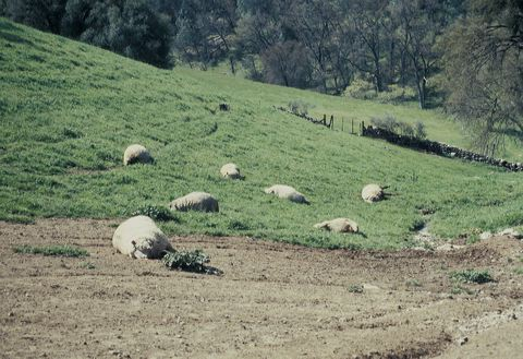 Multiple mountain lion sheep kill in California.